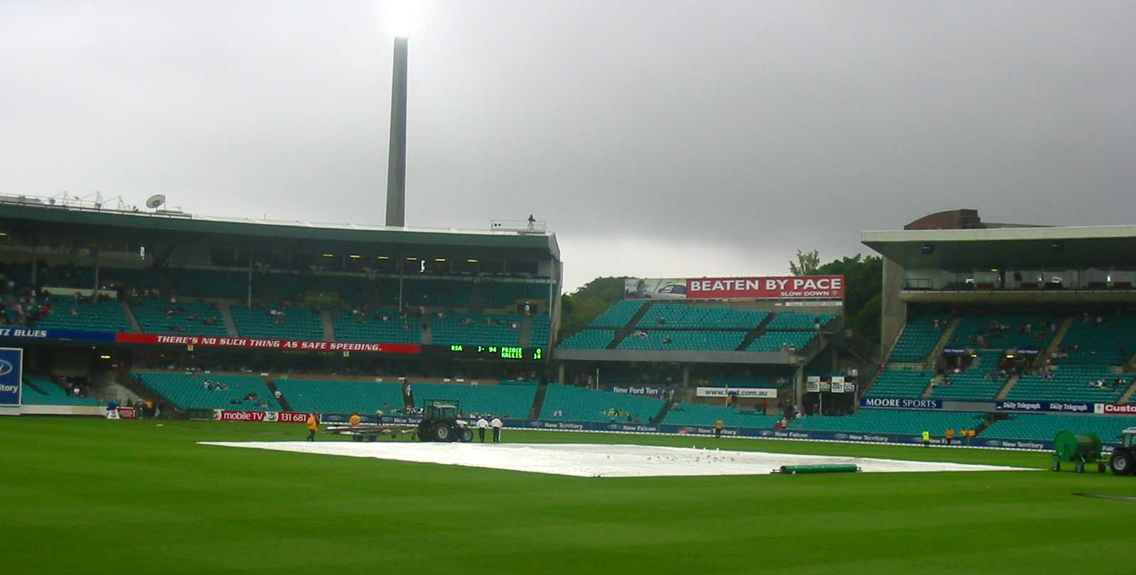 Rain delays play on day 4 of the Third Test of the 2005-06 South African tour of Australia. Taken by User:Albinomonkey, en:5 January en:2006.